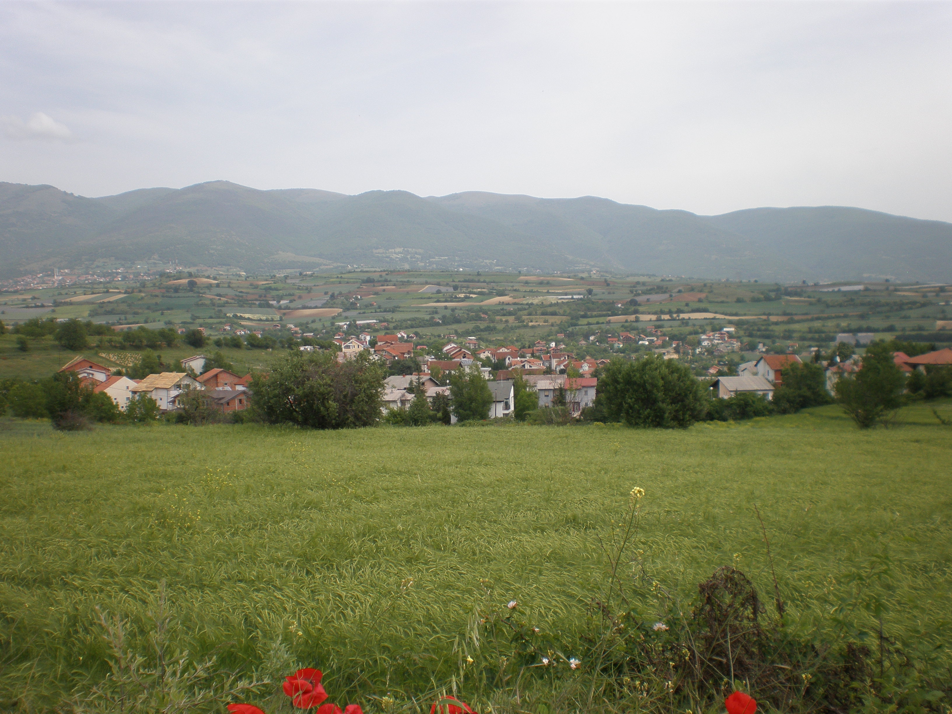 View of Radishani (Macedonia) from west